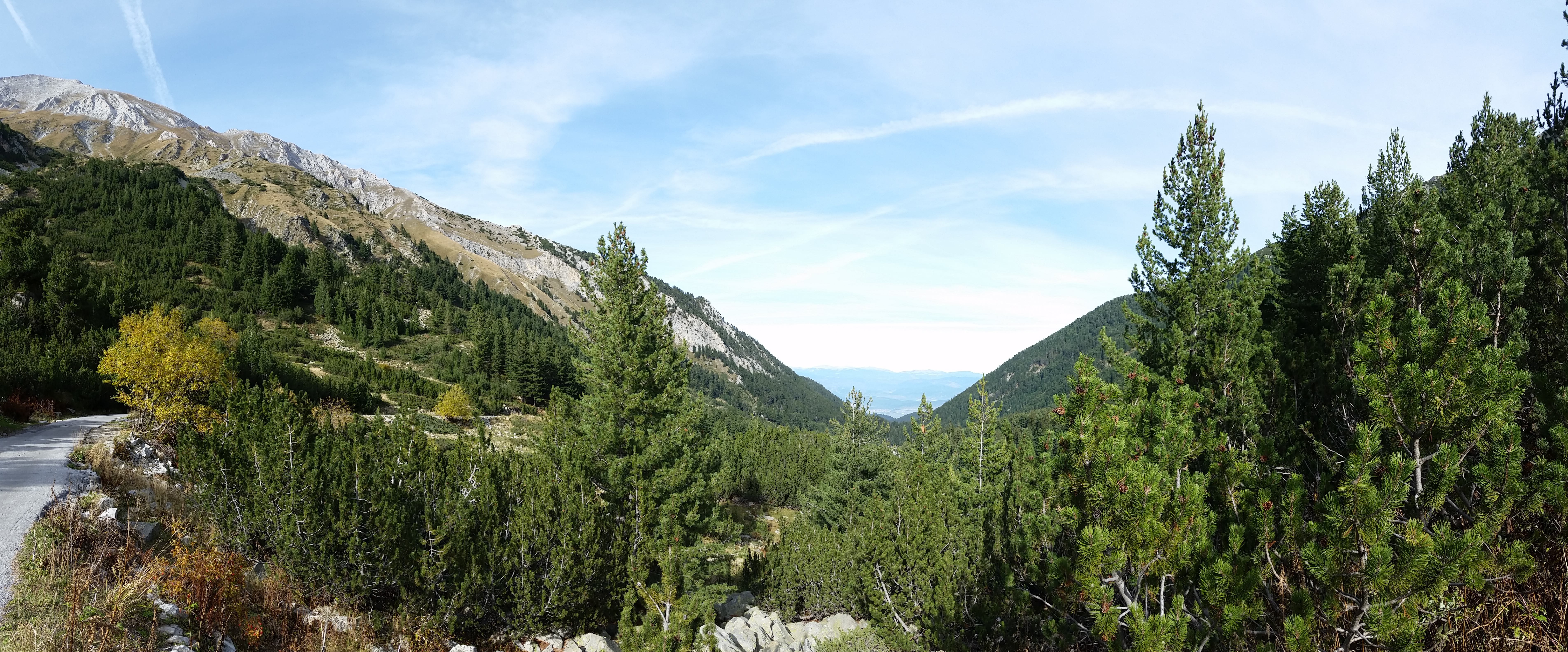 Природен парк Pirin National Park